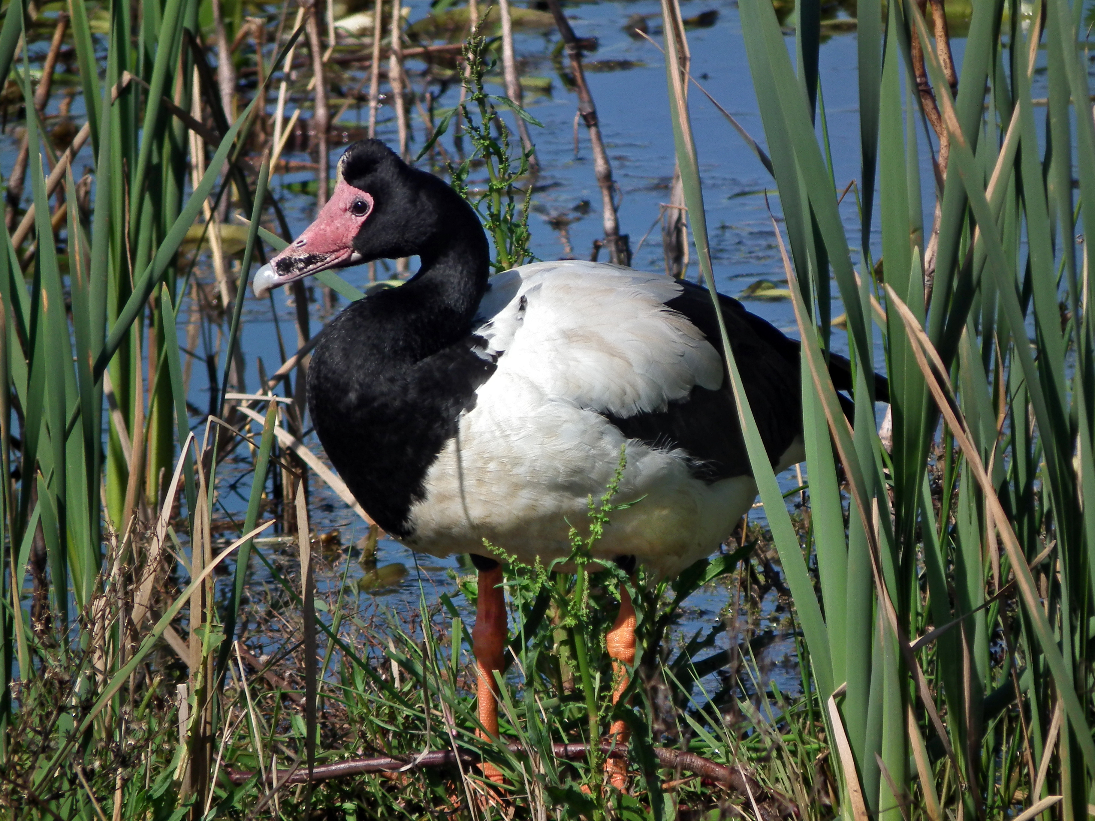 A Magpie Goose at Edithvale Wetland, Melbourne, Australia.